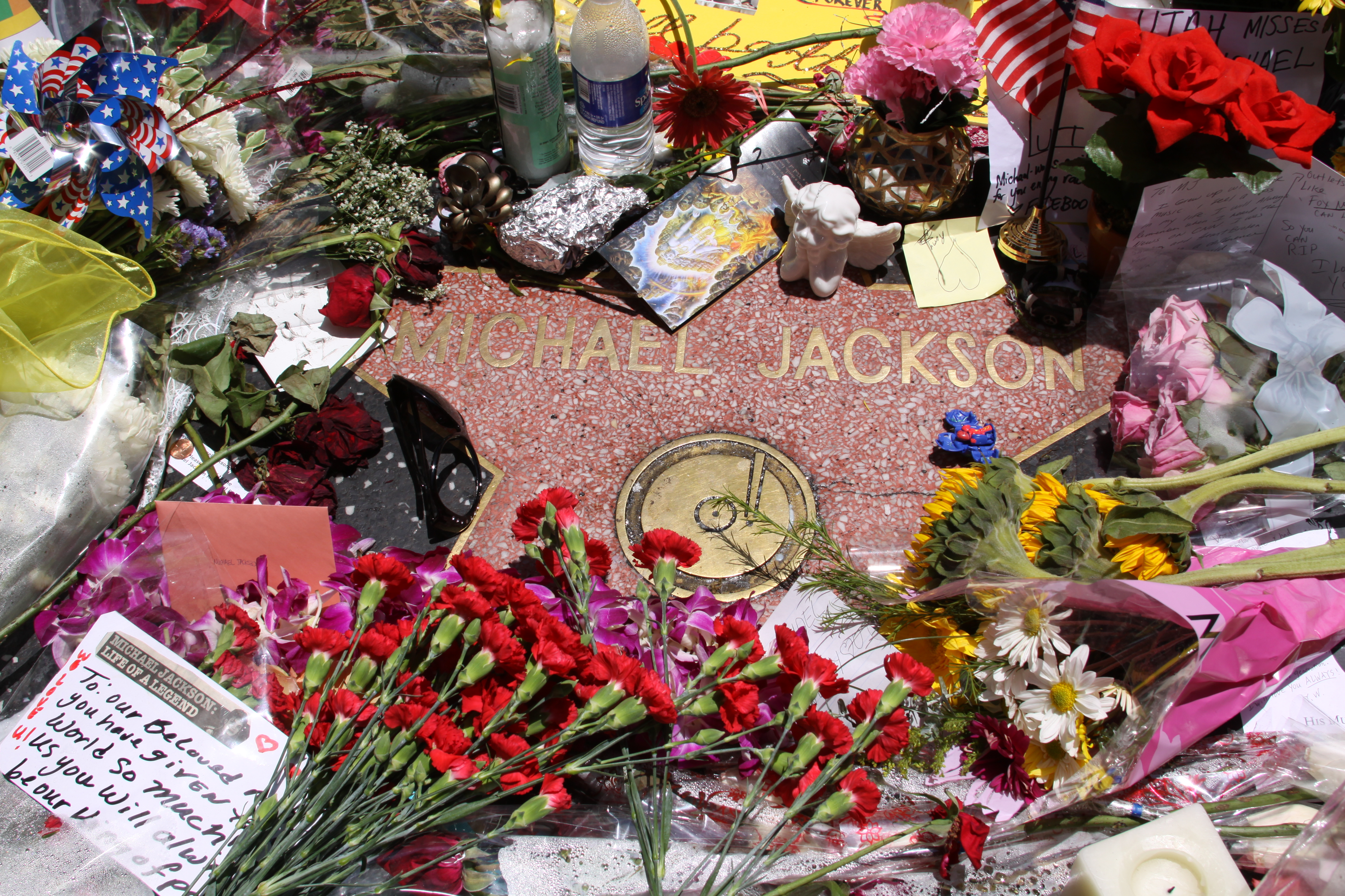 Memorial - Michael Jackson star on Hollywood Walk of Fame.